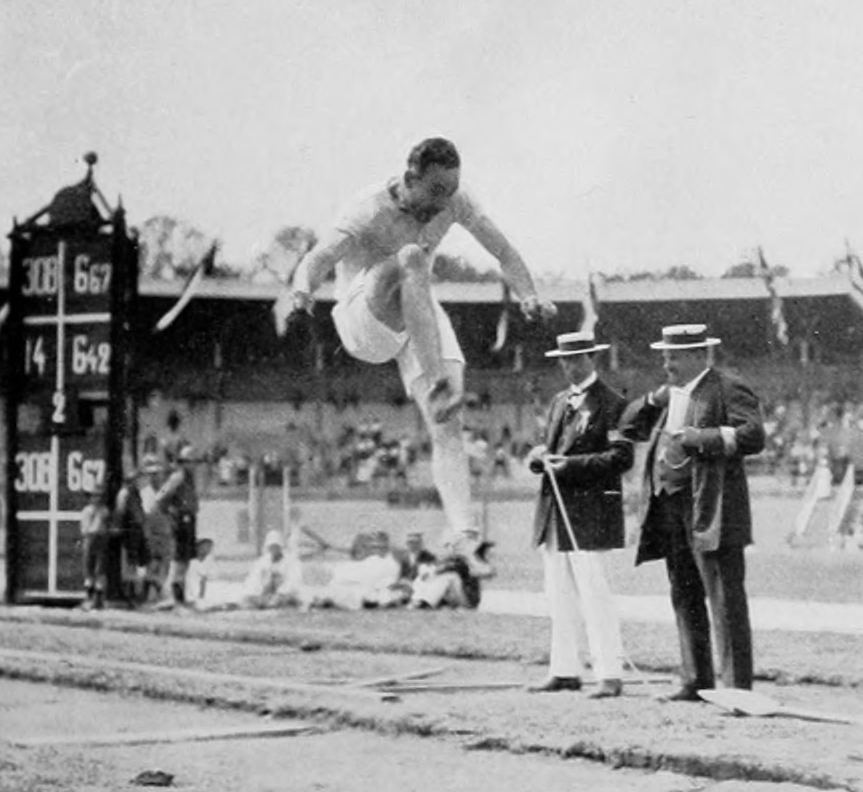 Eugen Mercer during the decathlon competition at the 1912 Summer Olympics - long jump